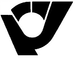 Matsukawa-town Nagano chapter